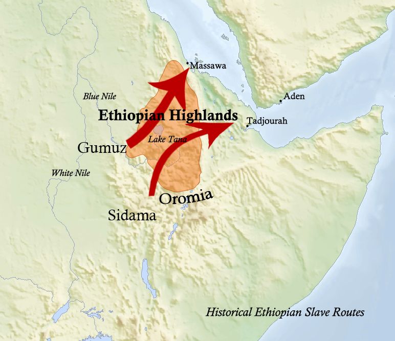 Slave trade routes of historical Ethiopia. Slaves from the Gumuz, Oromia and Sidama regions were brought to the Christian Highlands controlled by the Solomonic Dynasty and exported through Massawa and Tajoura natural ports.